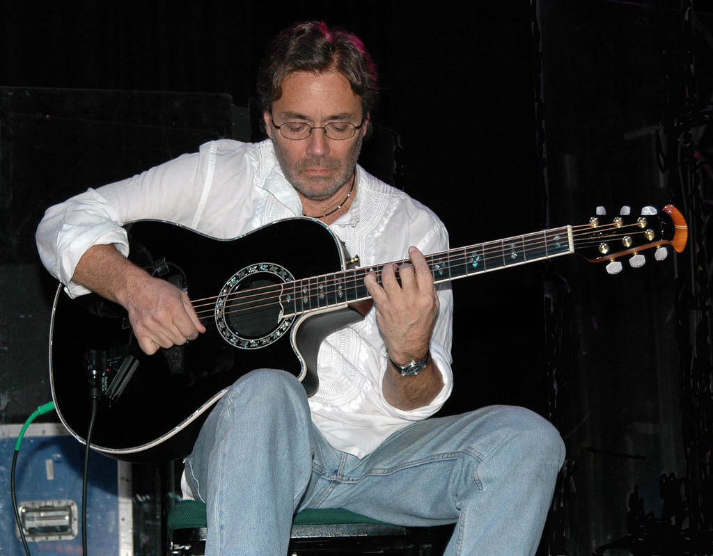 Al Di Meola, Granada Theater 12/06/06